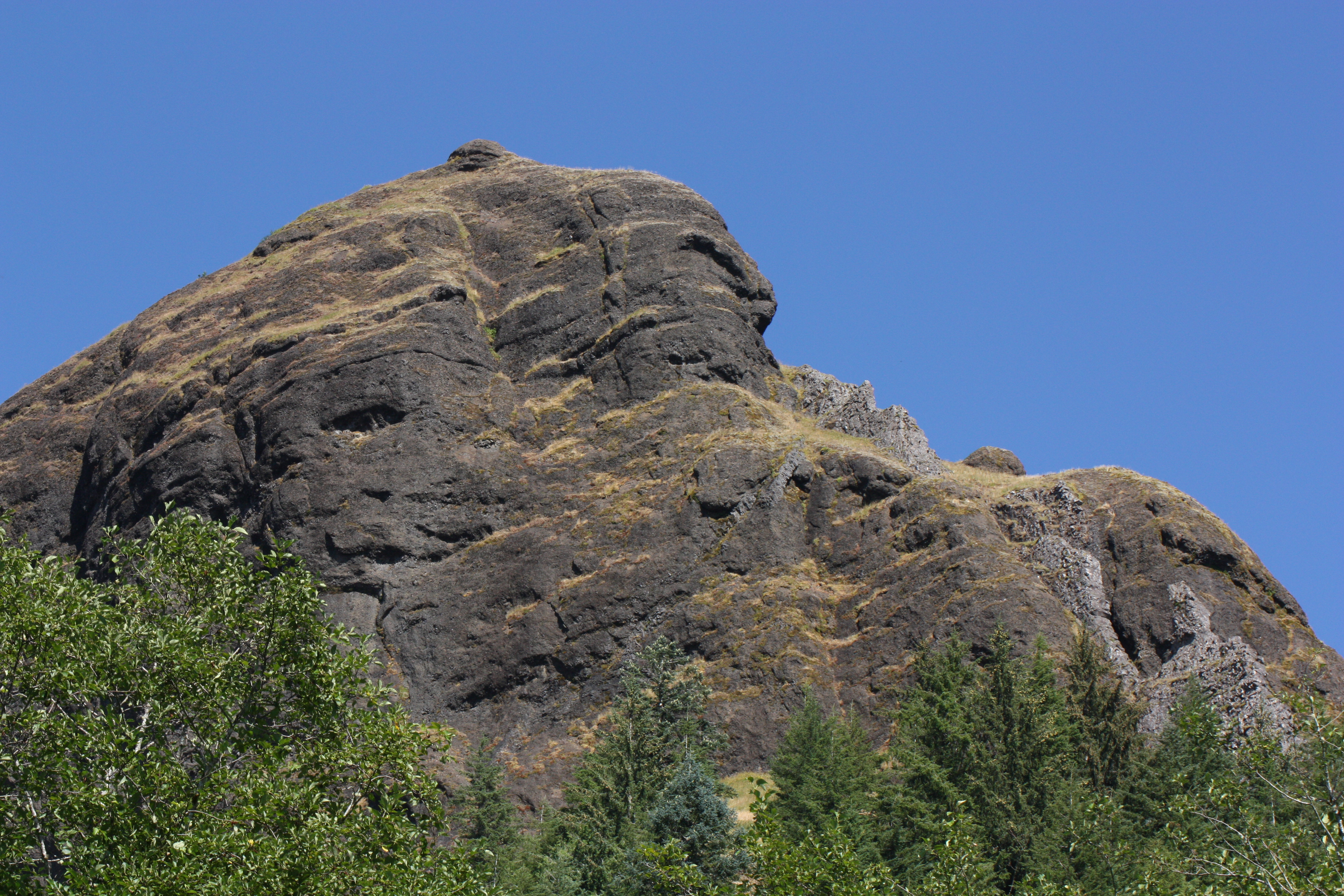 Columbia River Basalt Group Tc, Miocene; Saddle Mountain (1001 m, 3283 feet), southwest ridge of west-central peak; dike Viewpoint location: Saddle Mountain Trail, Saddle Mountain State Natural Area Viewpoint elevation: 508 meter (1667 ft) View direction: 71° Location source: Garmin GPSmap 60CSx Location Datum: WGS84